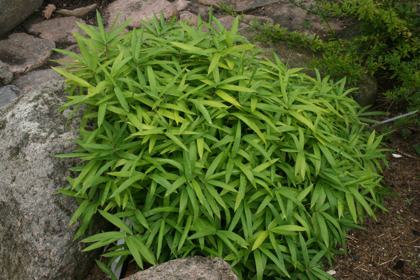 Arundinaria pumila: Habitus.